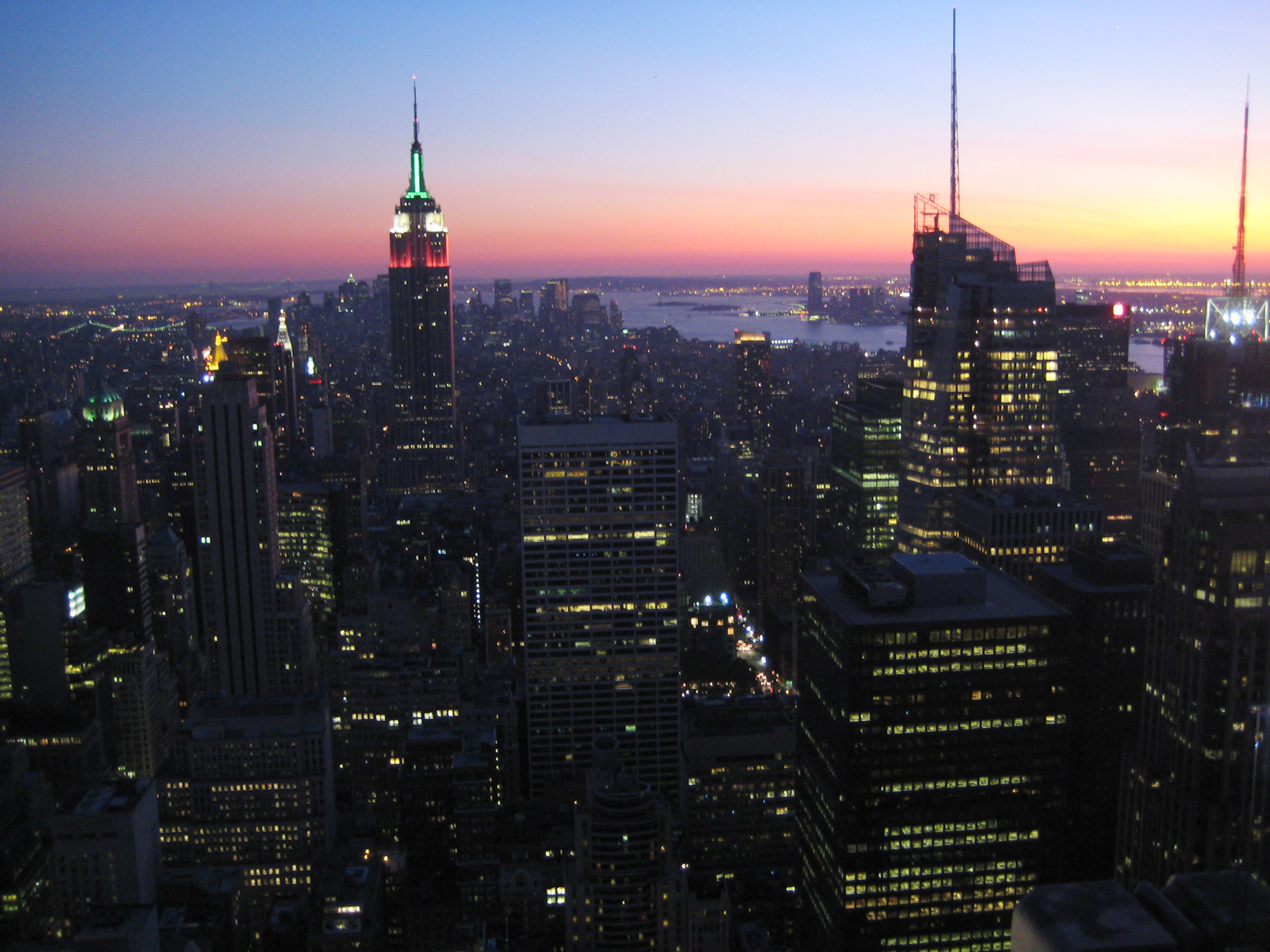 Columbus Day in Manhatten with the colours of the italian flag on the Empire State Building.